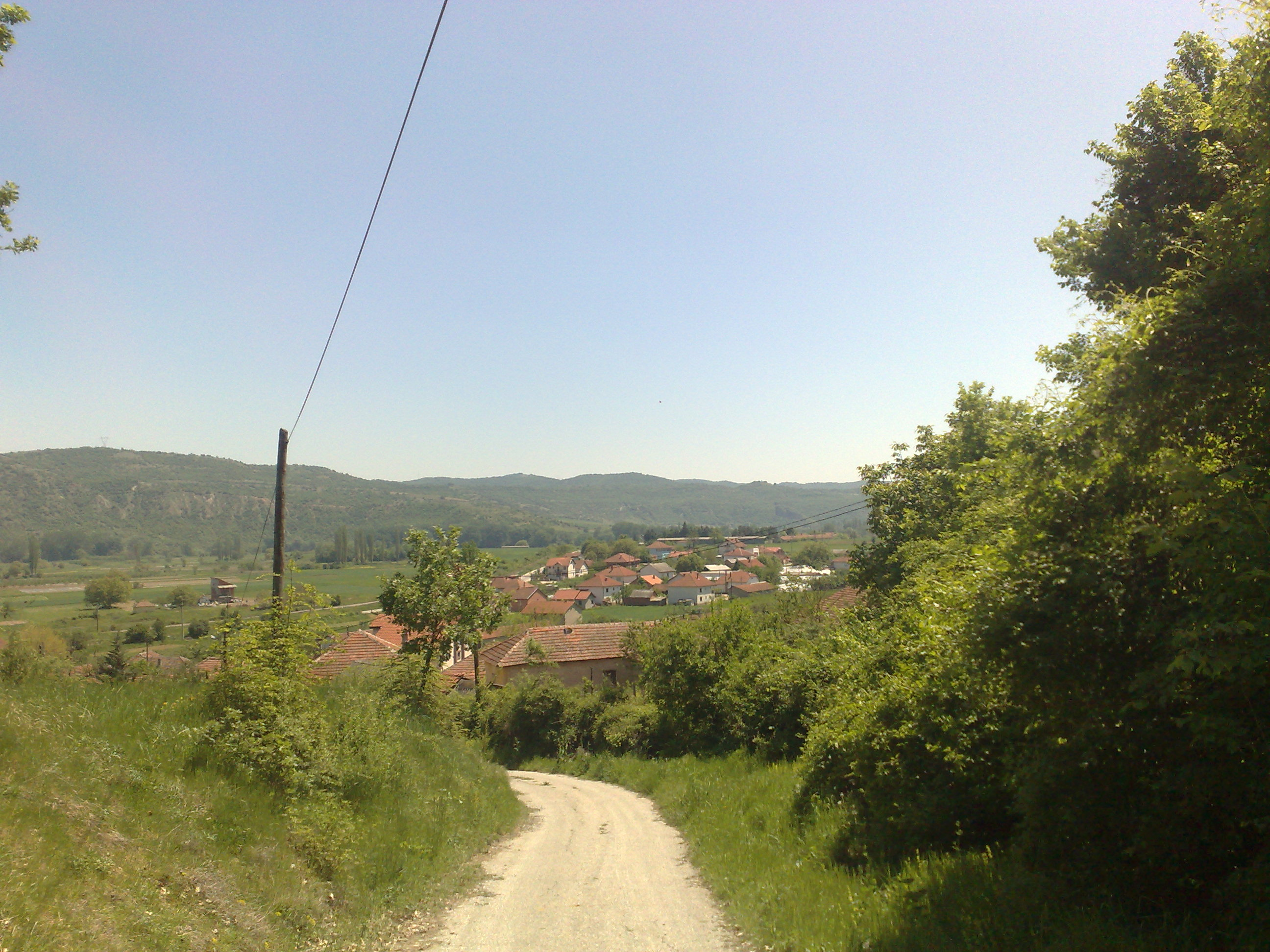 Zelenikovo, Macedonia